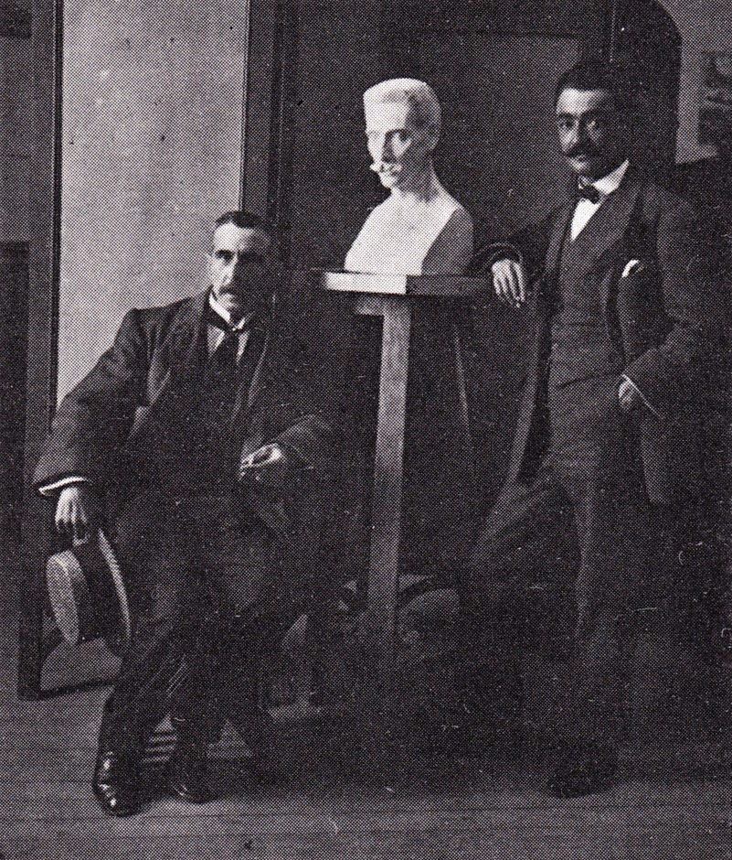 Luciano Sánchez Santarén in his studio with Tomás Argüello and a bust of Pablo Puchol